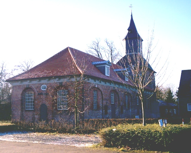 The Evangelical Lutheran St. Nicholas Church in Krummendeich, Lower Saxony, Germany.